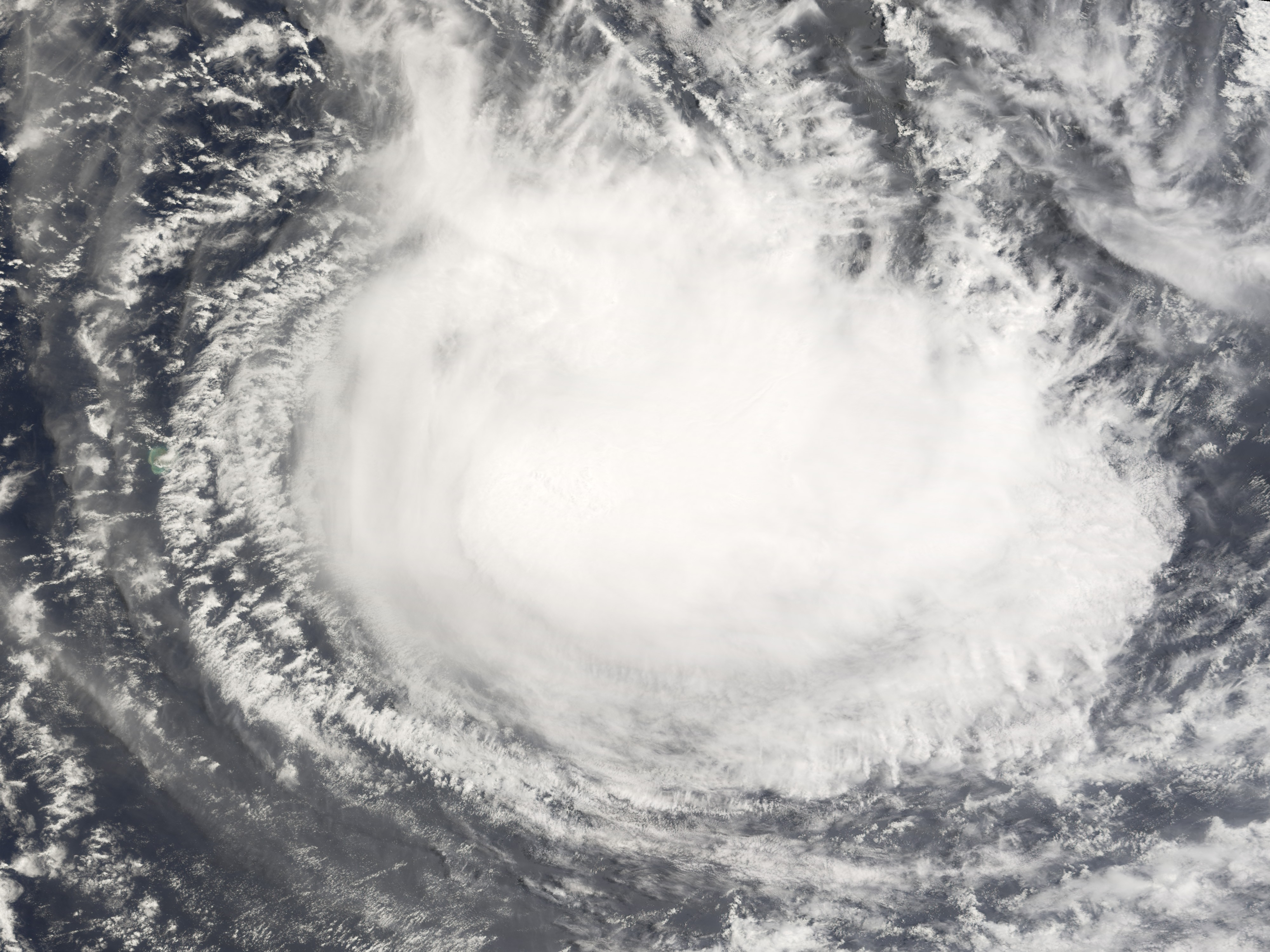 Tropical Cyclone Dora was spinning down on the morning of February 5, 2007, when the Moderate Resolution Imaging Spectroradiometer (MODIS) on NASA’s Terra satellite captured this image. At the time, Dora had winds of 120 kilometers per hour (75 miles per hour or 65 knots) with gusts to 148 km/h (92 mph, 80 knots), not an extremely powerful storm as far as cyclones go. Dora formed on January 28 over the mid-Indian Ocean, and developed into a strong cyclone with winds of 213 km/hr (132 mph, 115 knots), equivalent to a category four hurricane, by February 3. Though the storm had weakened from its peak strength when MODIS captured this photo-like image, Dora retains the tightly wound circular shape of a well-formed cyclone. On February 6, Dora was expected to continue to degrade as it moved south over cooler waters. It was not forecast to threaten land.